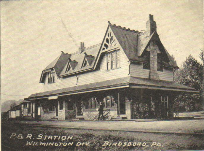 Postcard: "P. & R. Station, Wilmington Div., Birdsboro, Pa." (cropped) Philadelphia and Reading Railroad Station, Wilmington Division, Birdsboro, Pennsylvania (c.1875); Frank Furness, architect; Levi H. Focht, contractor.